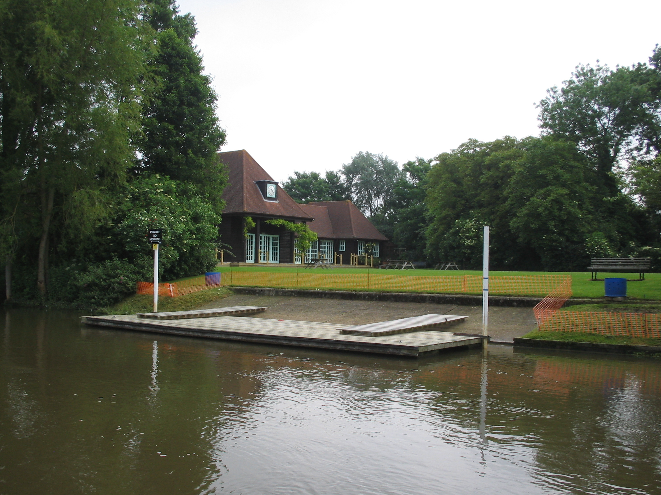 Queens Eyot (West side) on the River Thames above Boveney Lock showing the clubhouse.